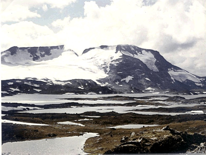 Fannaraaken(left) and Steindalsnosi(right) - seen from the road over Sognefjellet.